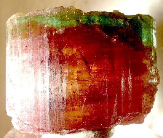 Elbaite Locality: Dunton Gem Quarry, Newry, Oxford County, Maine, USA (Locality at ) An excellent specimen of CARVING GRADE tourmaline from the famous Dunton Quarry in Newry, Maine. This beautiful bi-colored, cranberry and green, tourmaline is gemmy, translucent, striated and lustrous. The crystal is completely, if crudely terminated, and there is a gemmy and lustrous 2.0 cm yellow feldspar(?) crystal on the termination. This piece is complete all-around and has very, very trivial damage. Classic material that is hard to obtain and quite different in appearance from Brazilian tourmalines. 4.5 x 3.8 x 3.0 cm